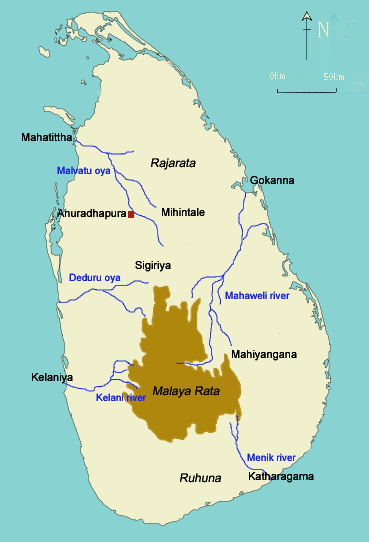 The major ports and cities during the Anuradhapura Kingdom of Sri Lanka.